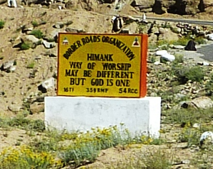 I took this photo of a roadside sign in the Nubra Valley, Ladkah in 2010.